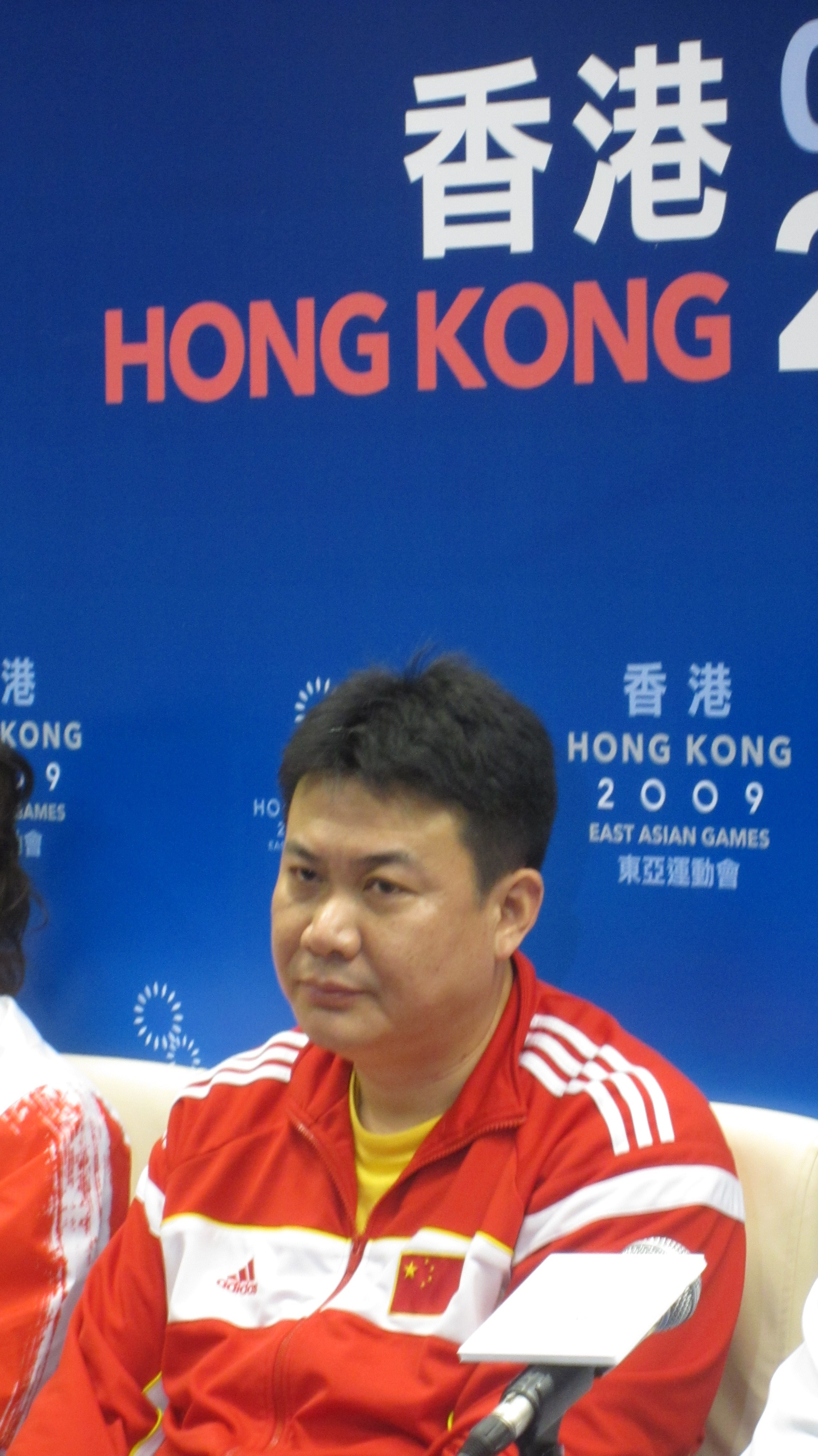 Hong Kong East Asian Games